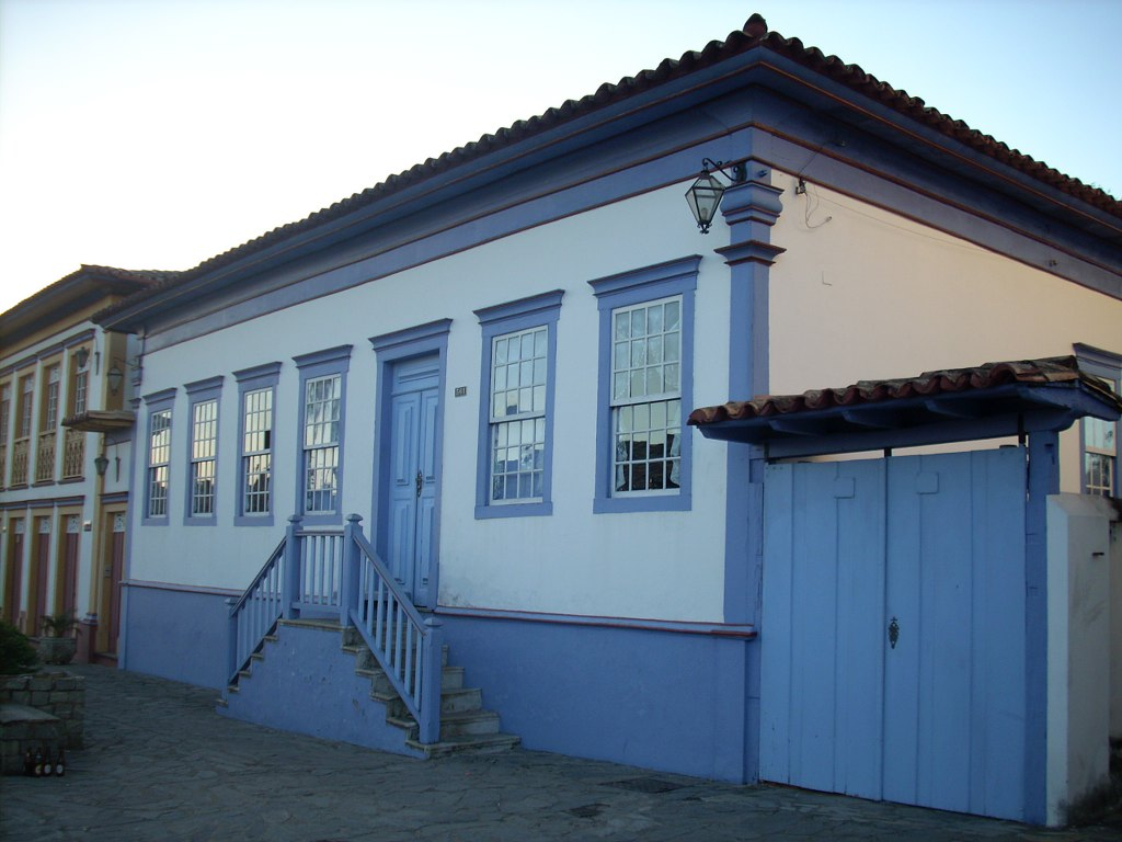 House in the historical centre of Santa luzia, Minas Gerais.